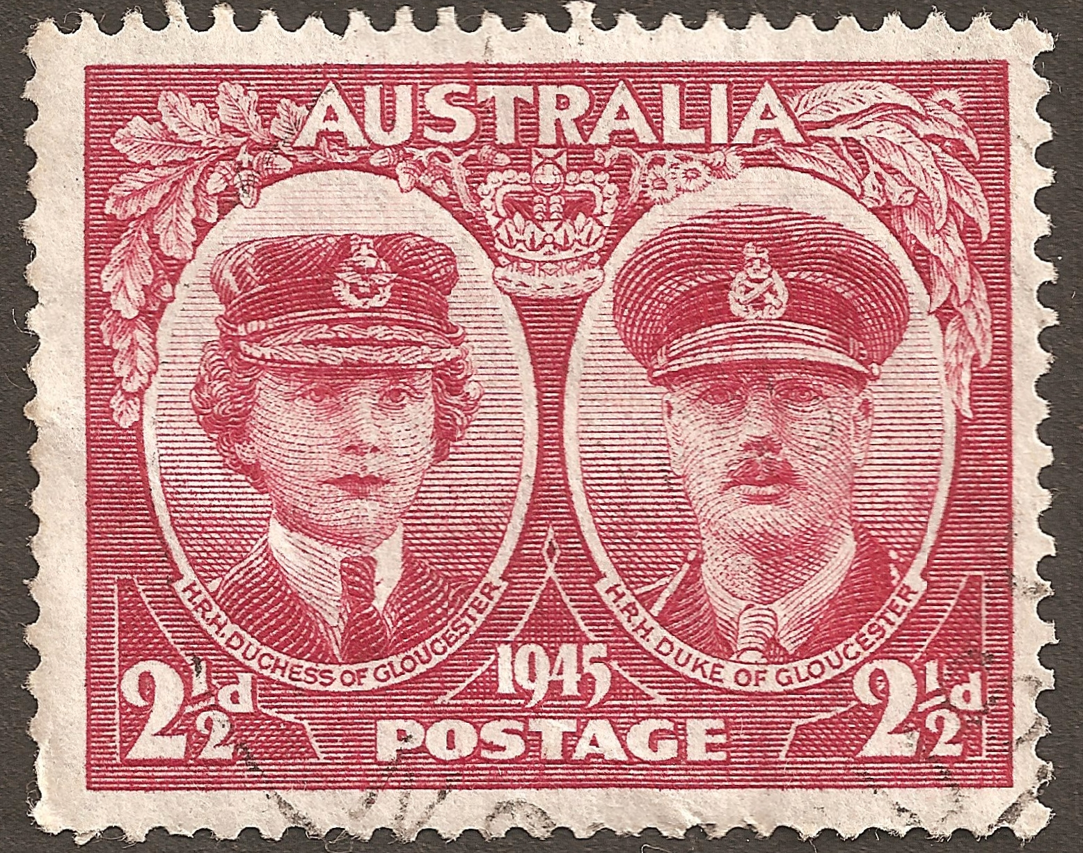 Stamp of Australia, 1945, figuring the Duke of Gloucester and his wife, when he became Governor-General of Australia.